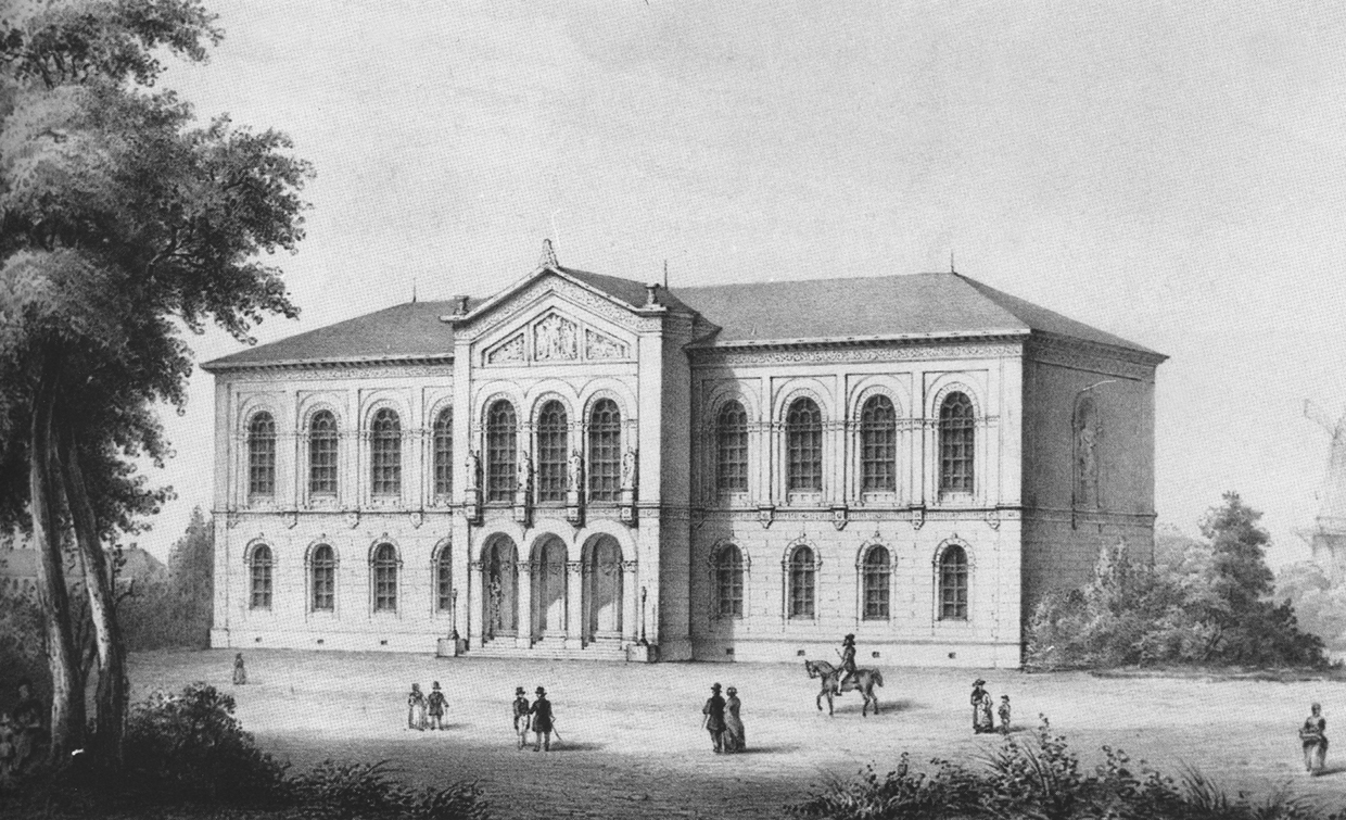 Lithography of the Bremer Kunsthalle (the art museum in Bremen, Germany) by J. Bremermann from the year 1849.